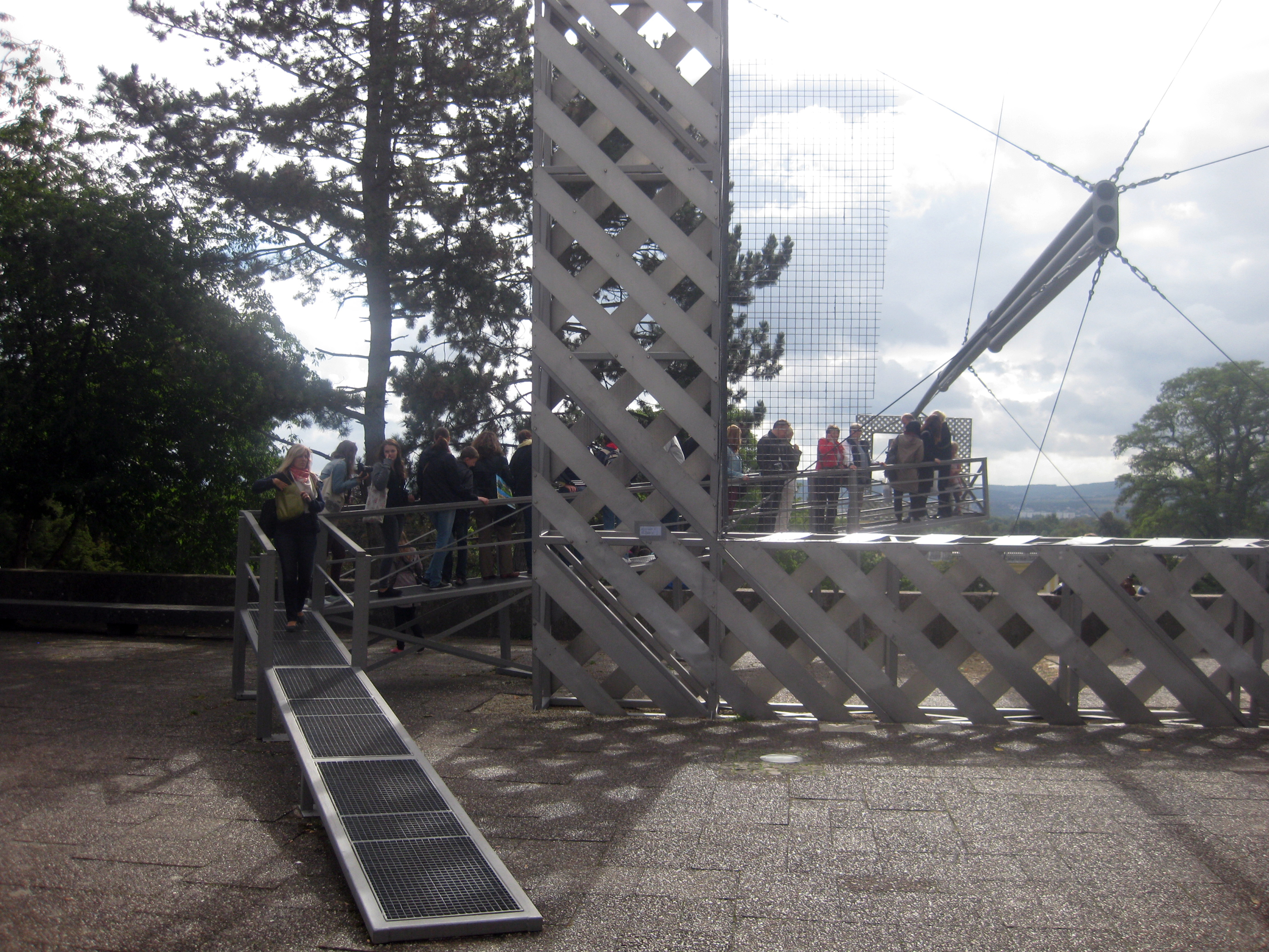 Visitors of the "dOCUMENTA (13)" on the sculpture Rahmenbau.